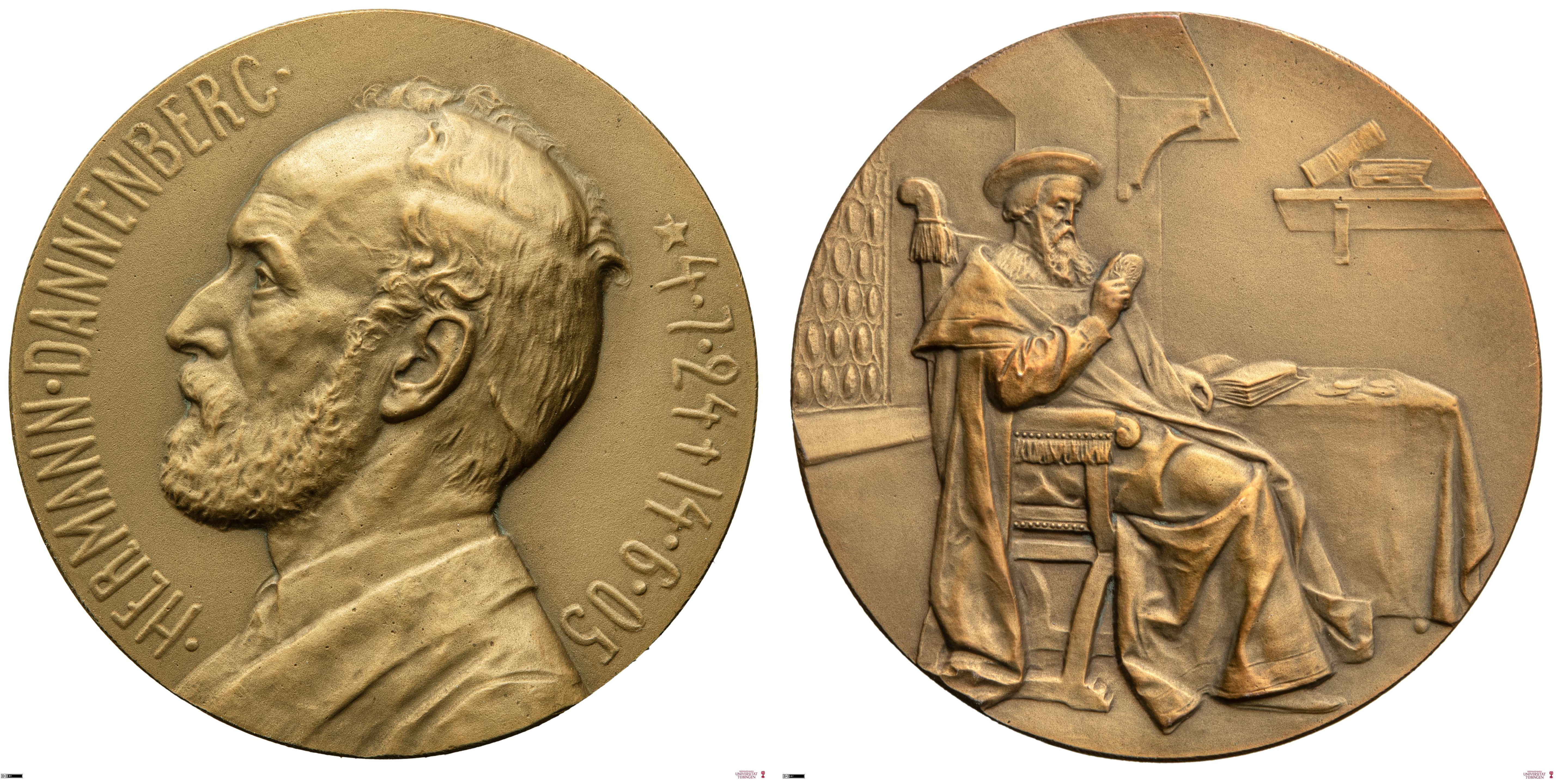 The front side depicts a bust of Dannenberg surrounded by his name and date of birth and death. The reverse shows a reclined old man engaged with studying monetary objects. The engraver Albert Moritz Wolff did not sign.